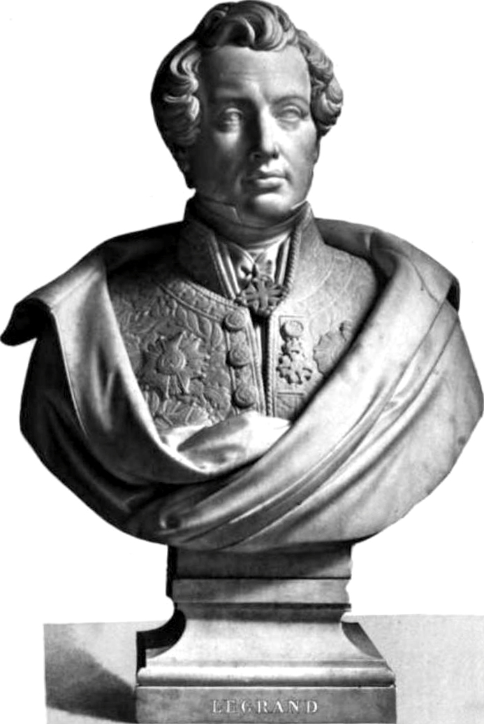 Baptiste Alexis Victor Legrand (1791-1848), French engineer and politician.